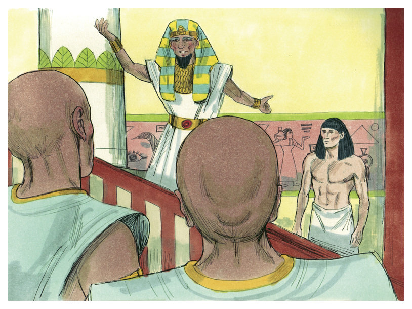 Biblical illustration of Book of Genesis Chapter 41